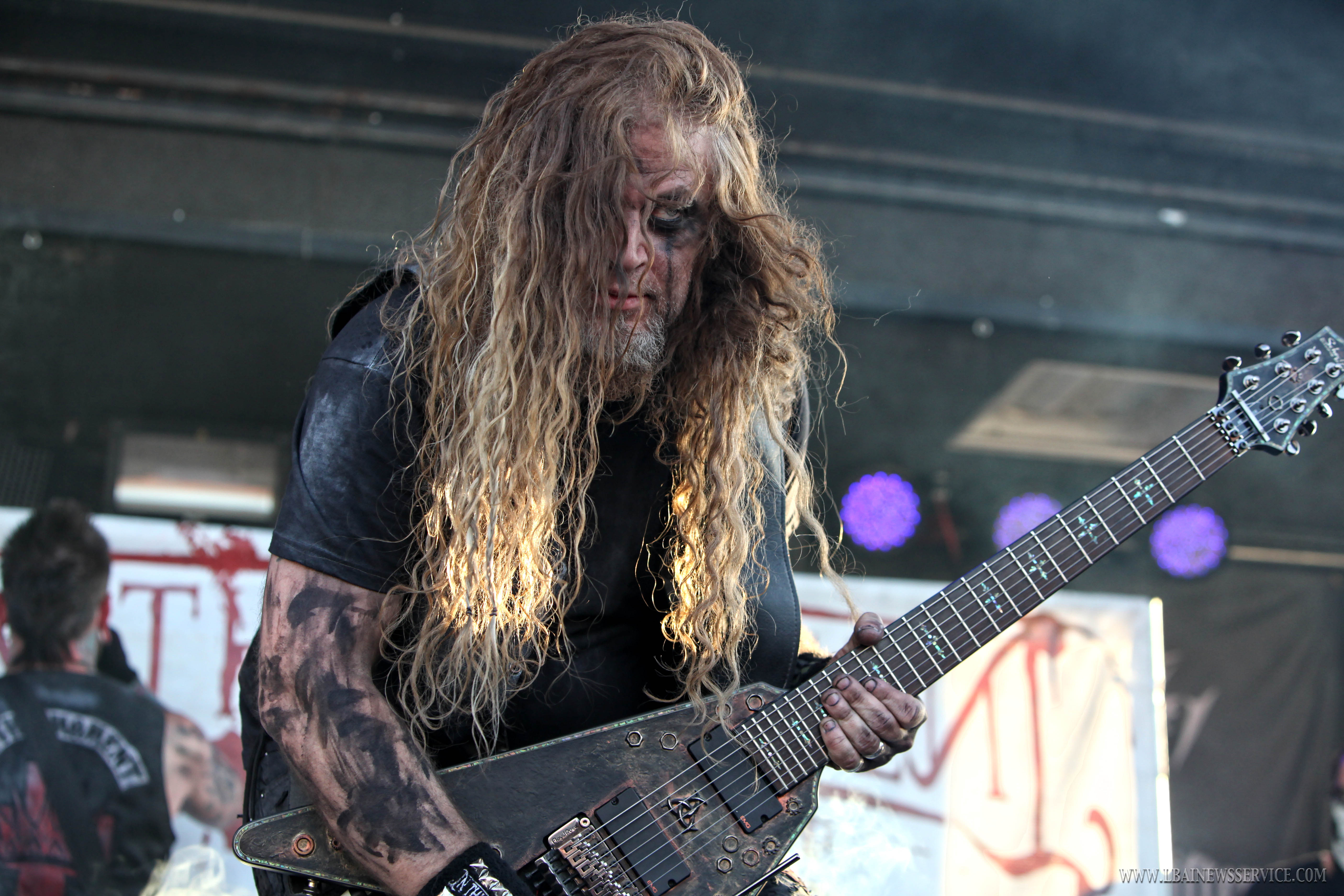 In This Moment performs at Fort Rock Festival 2013 at Jet Blue Park in Fort Myers - April 14, 2013